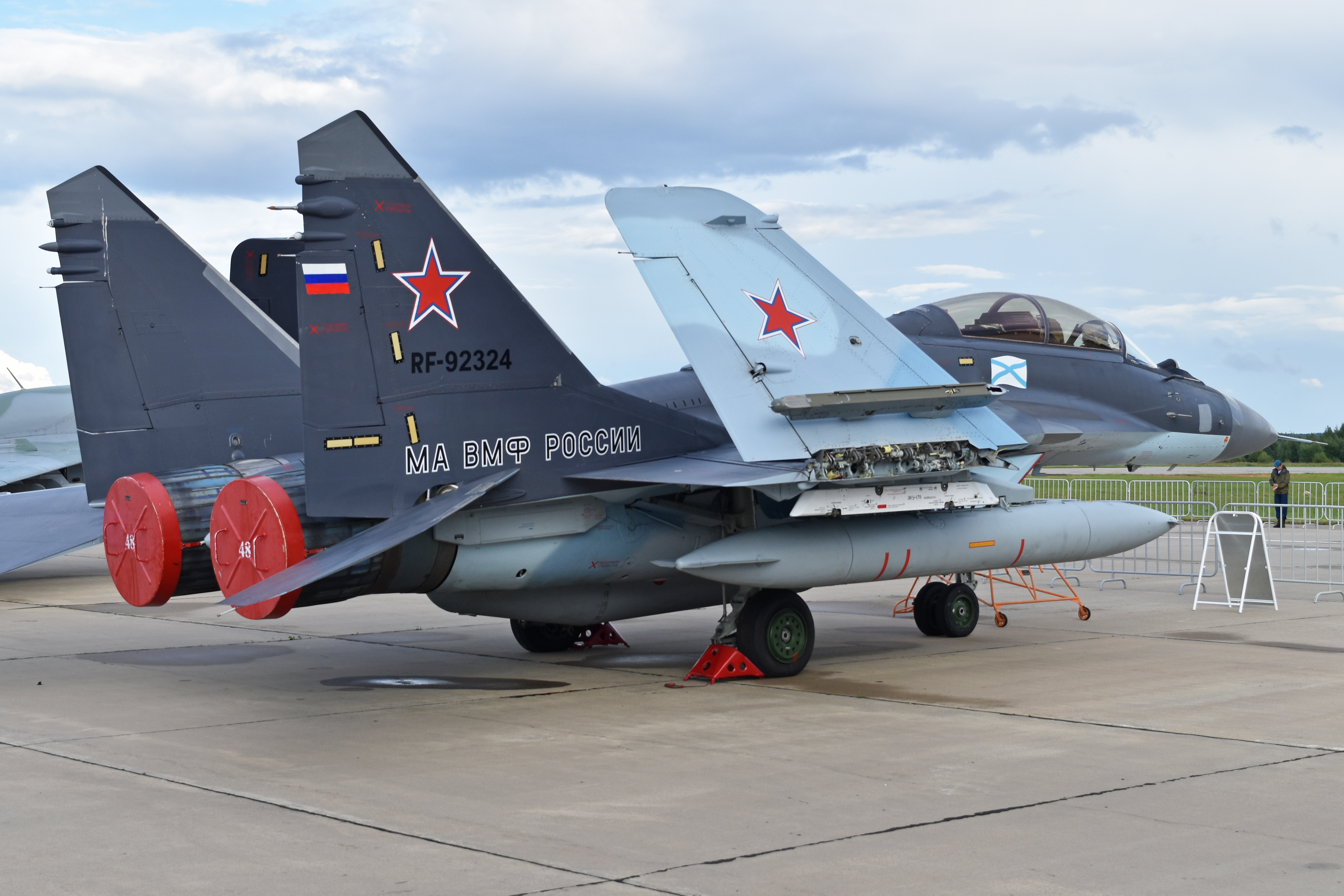 c/n unknown. Naval variant of the second generation MiG-29, with the NATO codename ‘Fulcrum-D’. Reported to be operated by the 100th Independent Shipborne Fighter Aviation Regiment (OKIAP) based at Severomorsk. On static display at the Aviation cluster of the ARMY 2017 event. Kubinka Airbase, Moscow Oblast, Russia. 24th August 2017